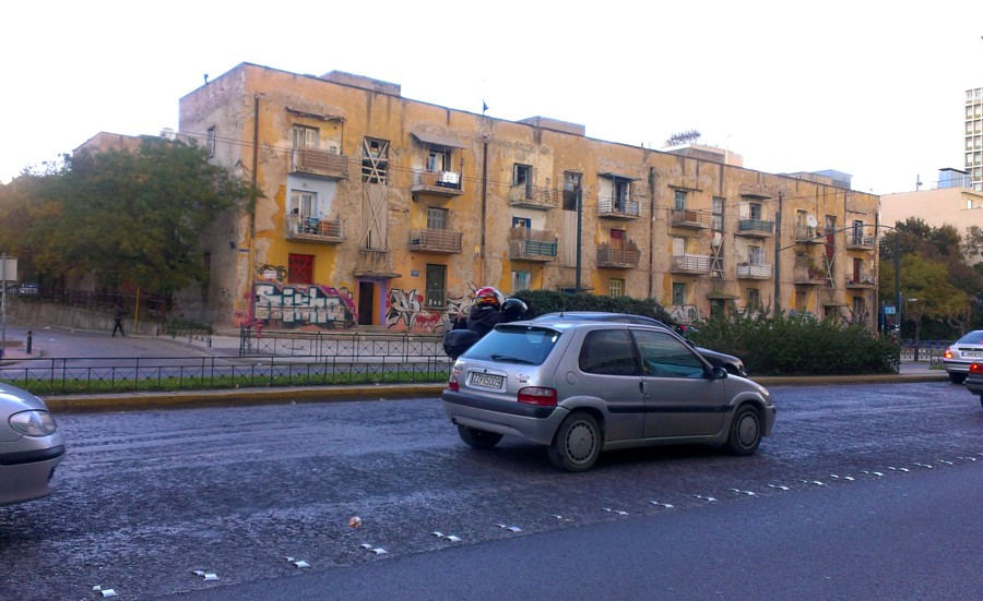 ampelokoipoi